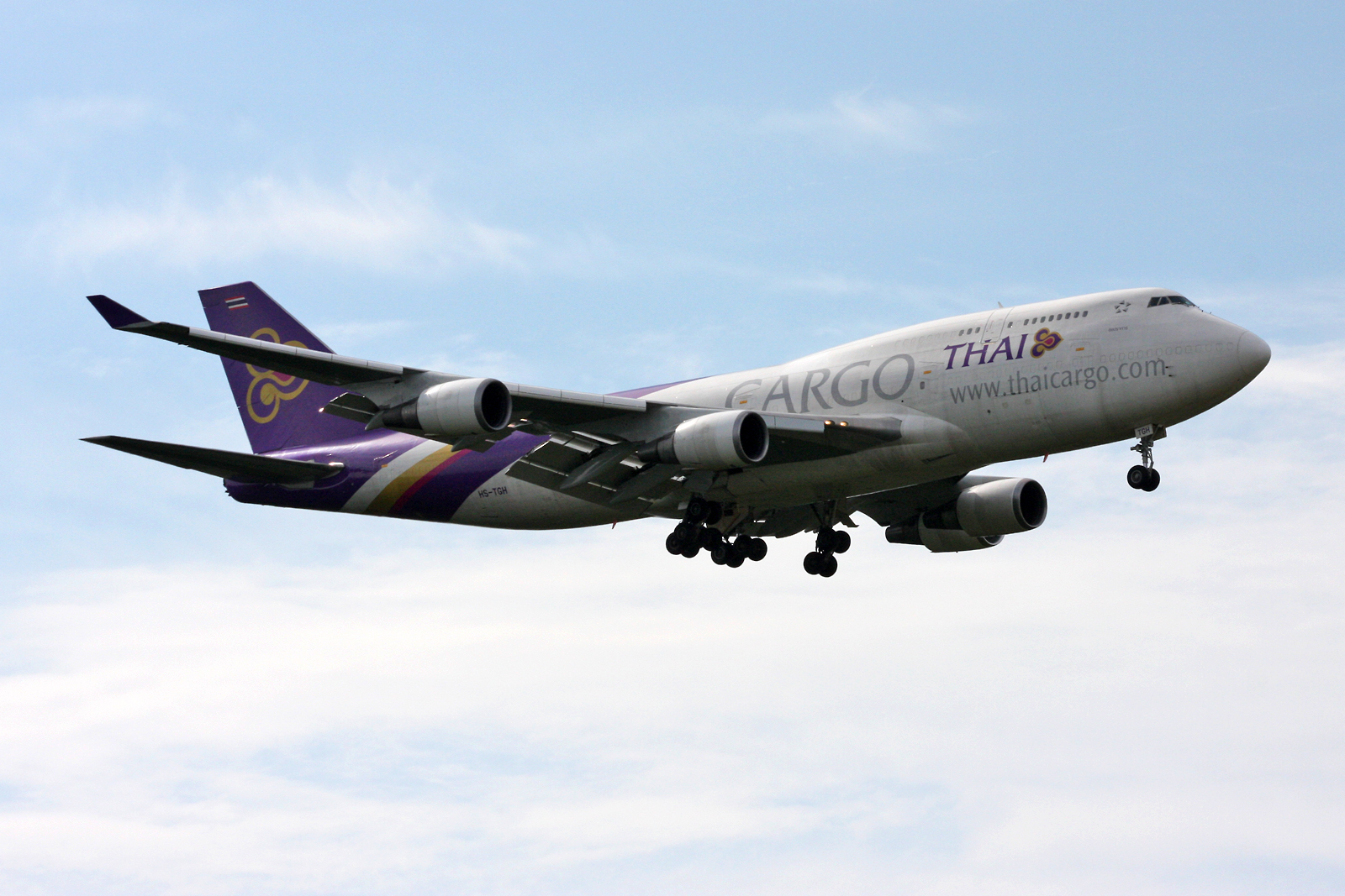 Frankfurt am Main (Rhein-Main AB) (FRA / EDDF / FRF) Germany 5.2014 First Flight 1.1990 Del 2.1990 to Thai Airways International Converted to freighter 05.2012